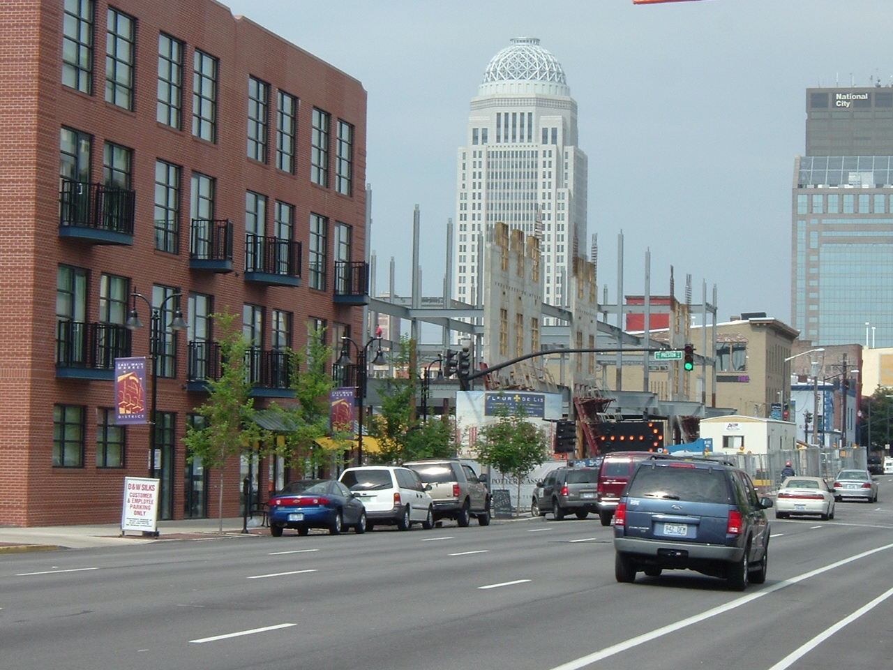 East Main in Lou. Taken by uploader, all rights released